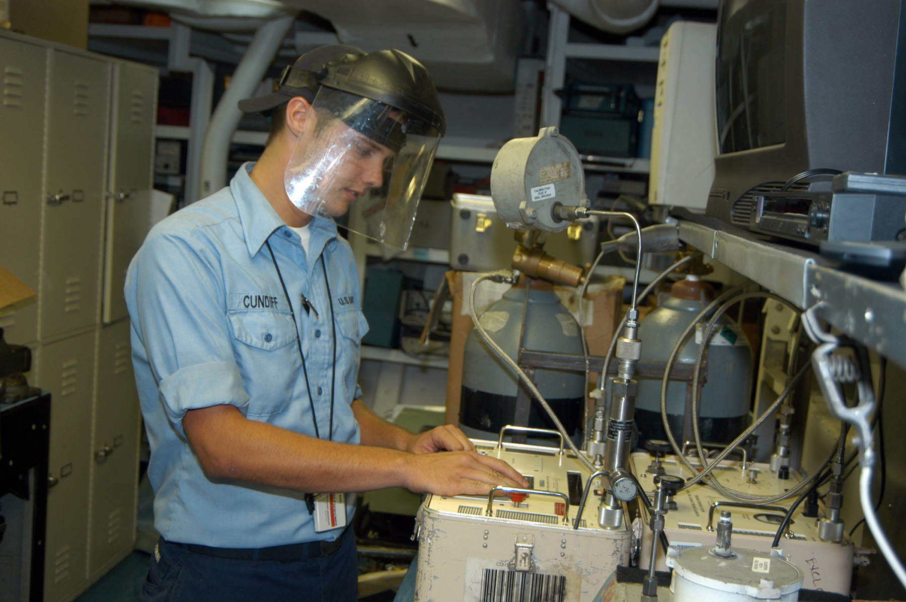 Newport News, Va. (Aug. 28, 2004) - Machinist Mate 2nd Class Frank Cundiff completes calibration testing on pressure gauges using the 3666C auto pressure calibrator. Petty Officer Cundiff is assigned to the calibration lab aboard the Nimitz-class aircraft carrier USS Dwight D. Eisenhower (CVN 69). The crew is busy preparing the ship for upcoming sea trials. U.S. Navy photo by Photographer's Mate Airman Apprentice Brandon Fox (RELEASED)